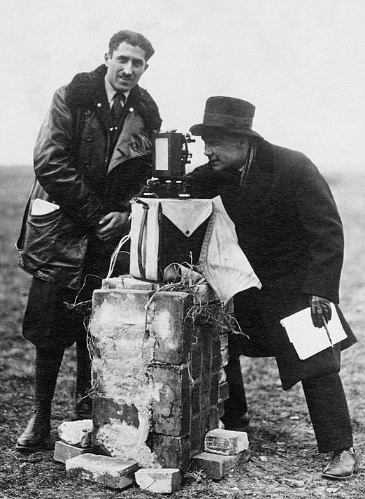 Swedish meteorologist and explorer Finn Malmgren and Italian physicist Aldo Pontremoli studying the magnetic field during Umberto Nobile's expedition. Arctic, 1928.